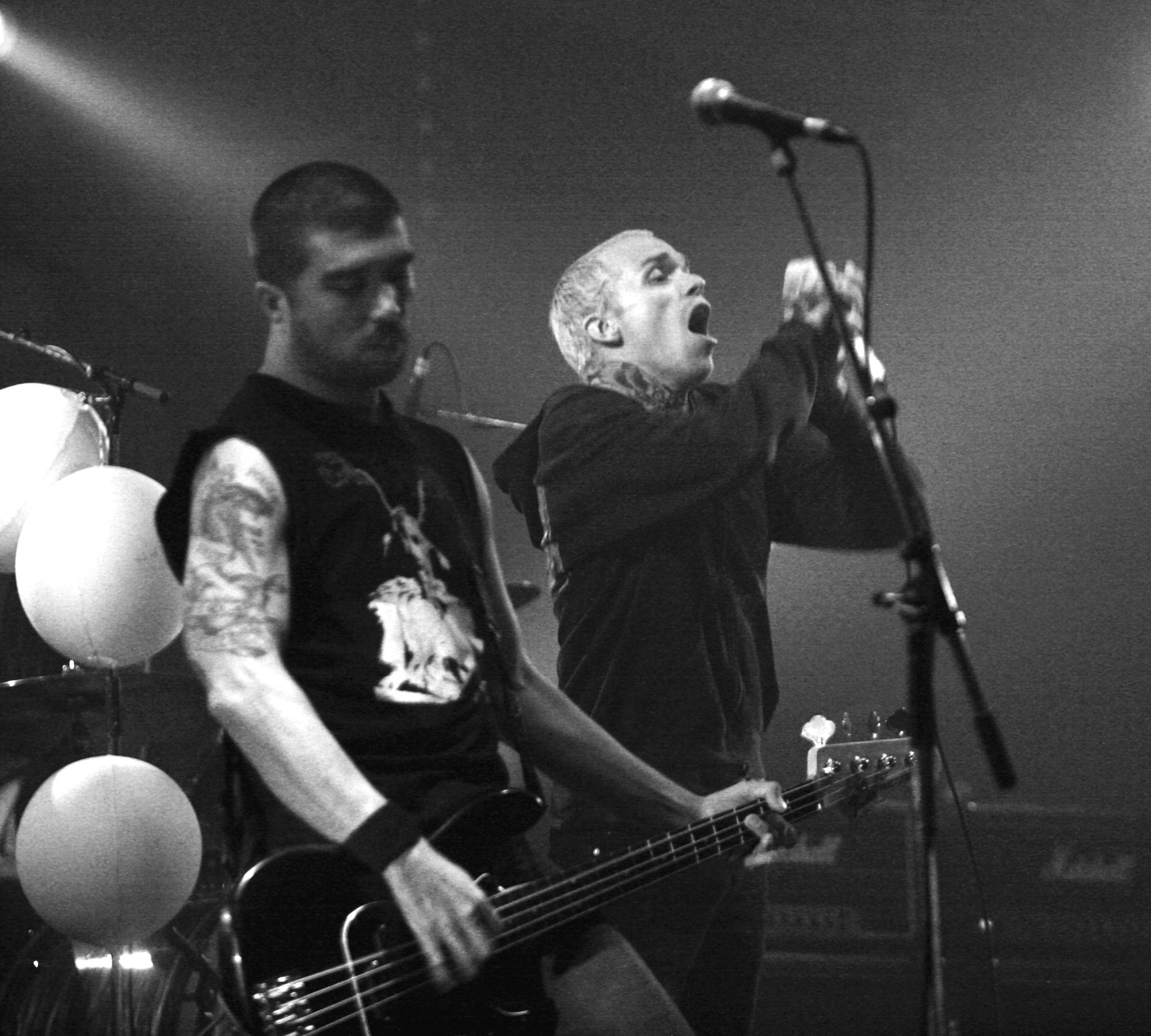 Converge at the Eurockéennes of 2007